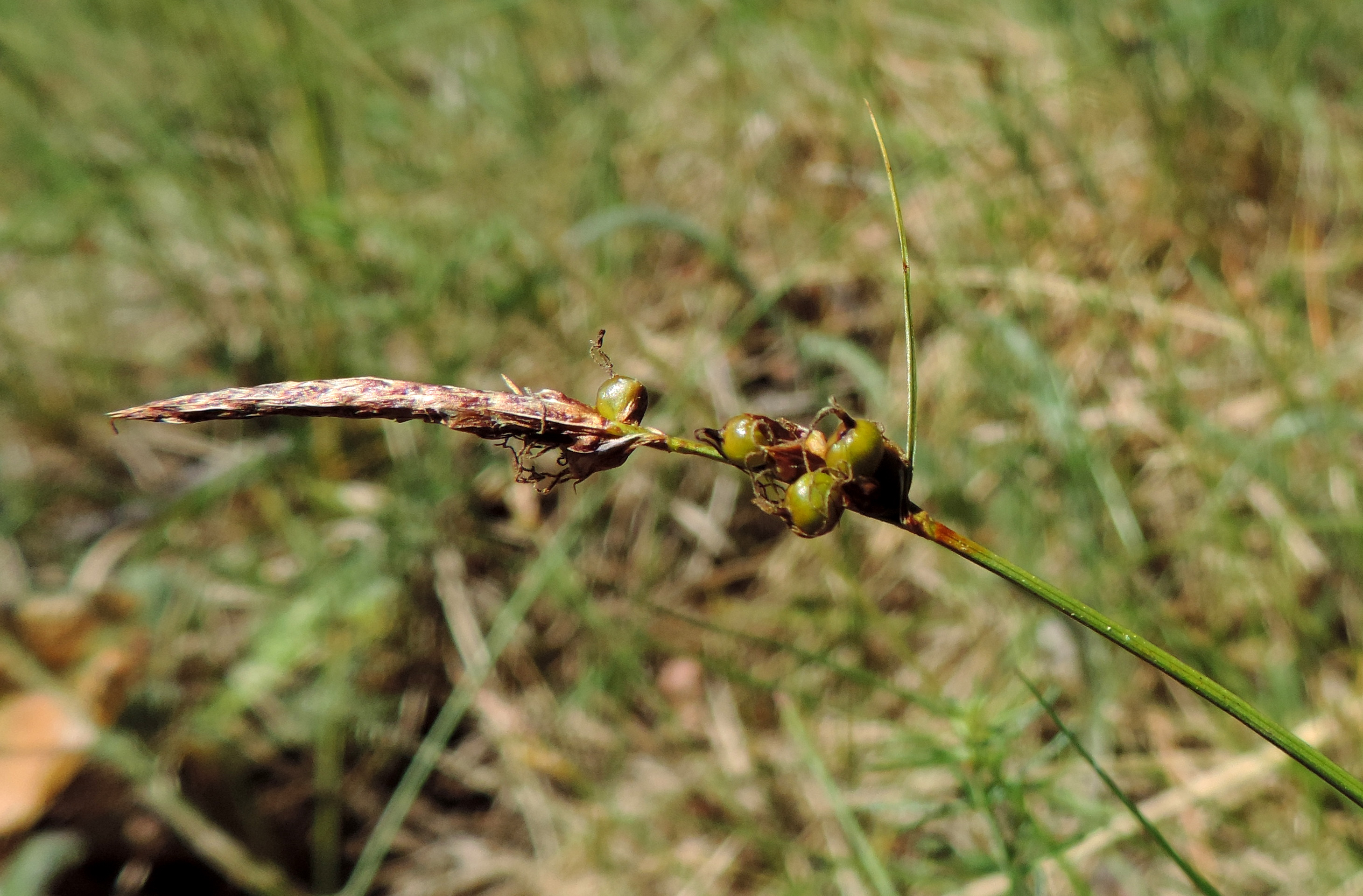 Carex supina near Golice, zachodniopomorskie, NW Poland